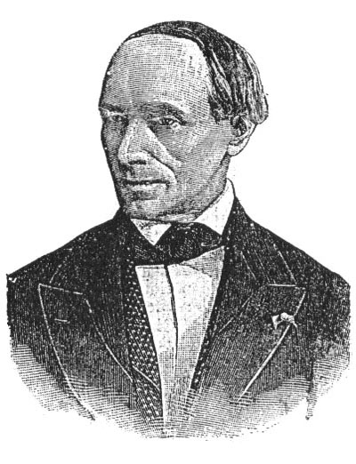 This image is from the Fourierist journal La Rénovation, n° 96, February 28, 1898. It is based on a photograph. The subject and the original artist have both been dead for over 100 years. The image is reproduced at URL: It is in the public domain.